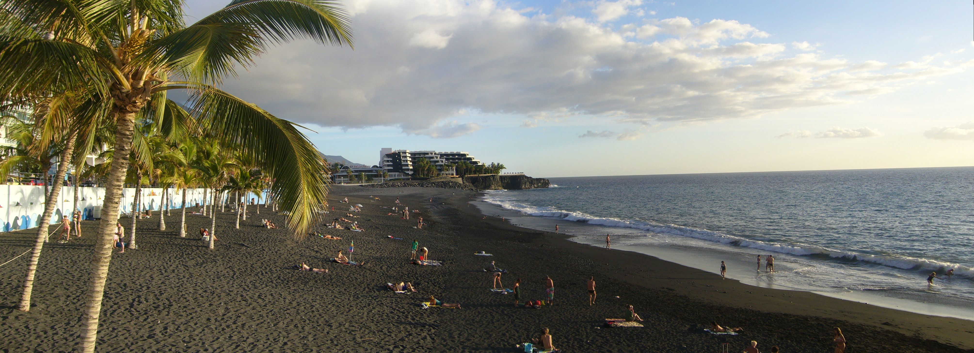 Puerto Naos beach (Los Llanos de Aridane) with the hotel